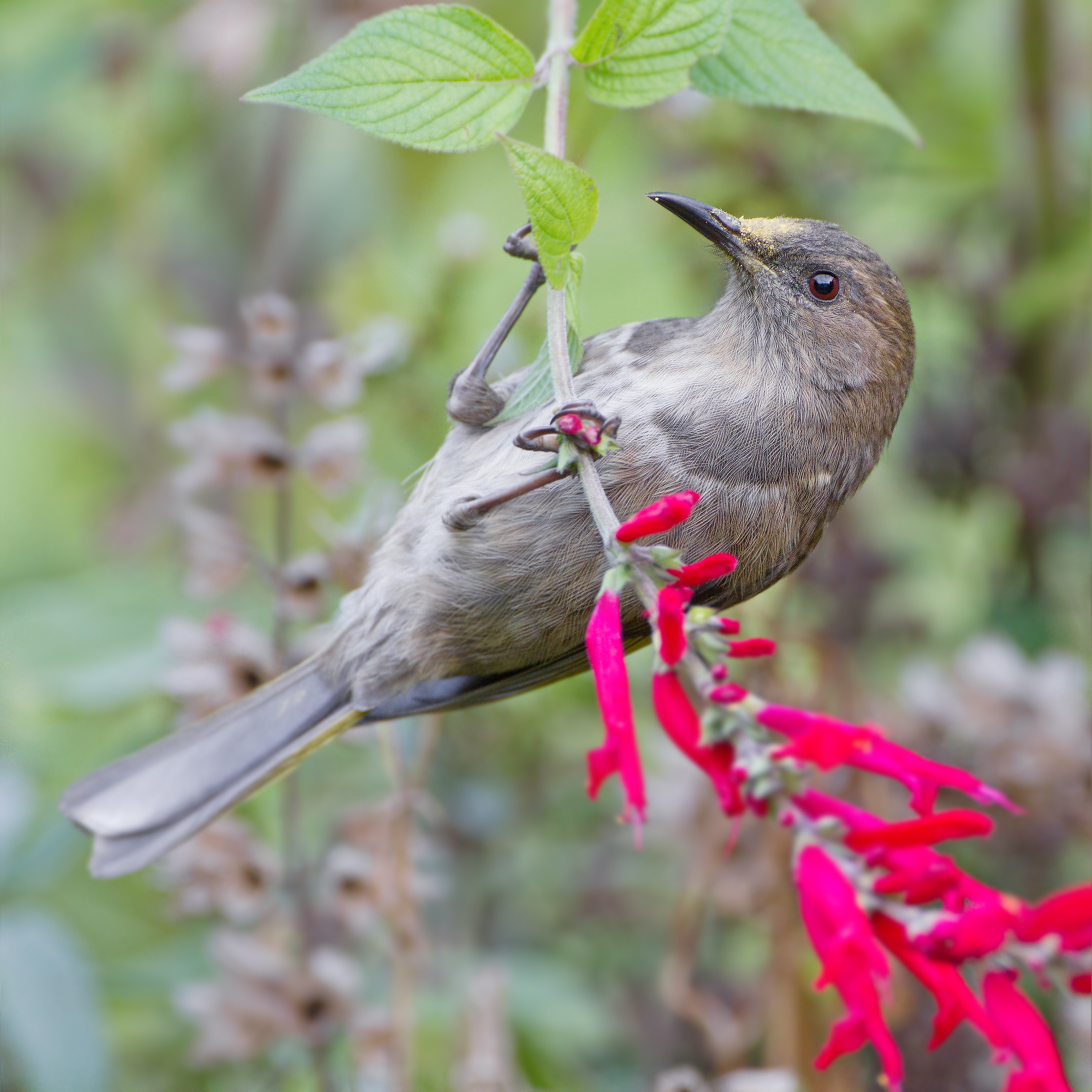 A female Crescent Honeyeater (Phylidonyris pyrrhopterus)